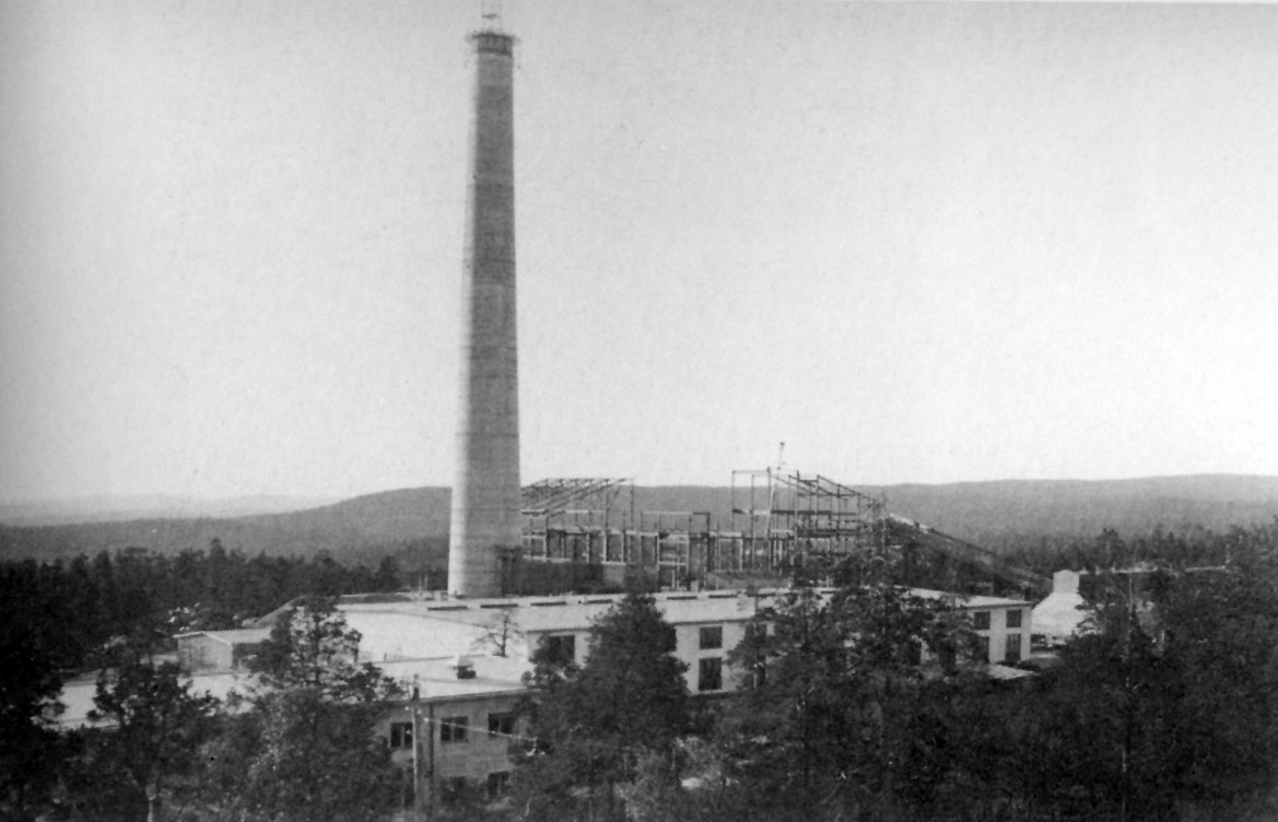 Smelting plant of Kolosjoki nickel mines in Petsamo, Finland.